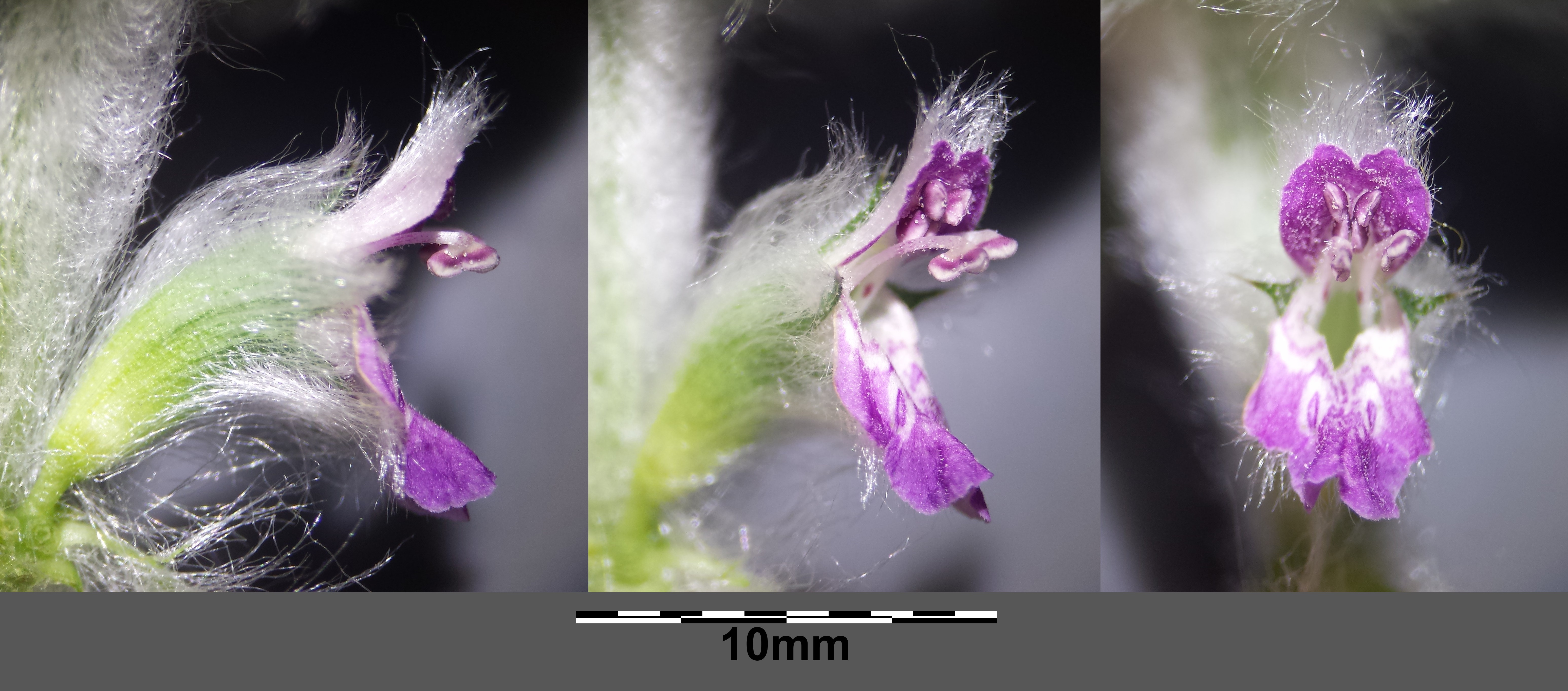 Flower Taxonym: Stachys germanica (subsp. germanica) ss Fischer et al. EfÖLS 2008 ISBN 978-3-85474-187-9 Location: Waldberg next to Niederkreuzstetten, district Mistelbach, Lower Austria - ca. 250 m a.s.l. Habitat: shrubbery